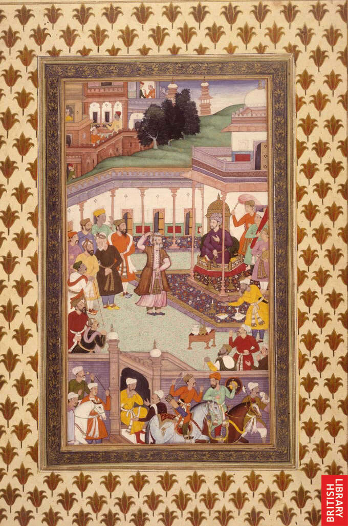 The "Memoirs of Babur" or Baburnama are the work of the great-great-great-grandson of Timur (Tamerlane), Zahiruddin Muhammad Babur (1483-1530). The Baburnama tells the tale of the prince's struggle first to assert and defend his claim to the throne of Samarkand and the region of the Fergana Valley. After being driven out of Samarkand in 1501 by the Uzbek Shaibanids, he ultimately sought greener pastures, first in Kabul and then in northern India, where his descendants were the Moghul (Mughal) dynasty ruling in Delhi until 1858. The miniatures are from an illustrated copy of the Baburnama prepared for the author's grandson, the Mughal Emperor Akbar. It is worth remembering that the miniatures reflect the culture of the court at Delhi; hence, for example, the architecture of Central Asian cities resembles the architecture of Mughal India. Nonetheless, these illustrations are important as evidence of the tradition of exquisite miniature painting which developed at the court of Timur and his successors. Timurid miniatures are among the greatest artistic achievements of the Islamic world in the fifteenth and sixteenth centuries. Illustrations of Mughals from the Baburnama